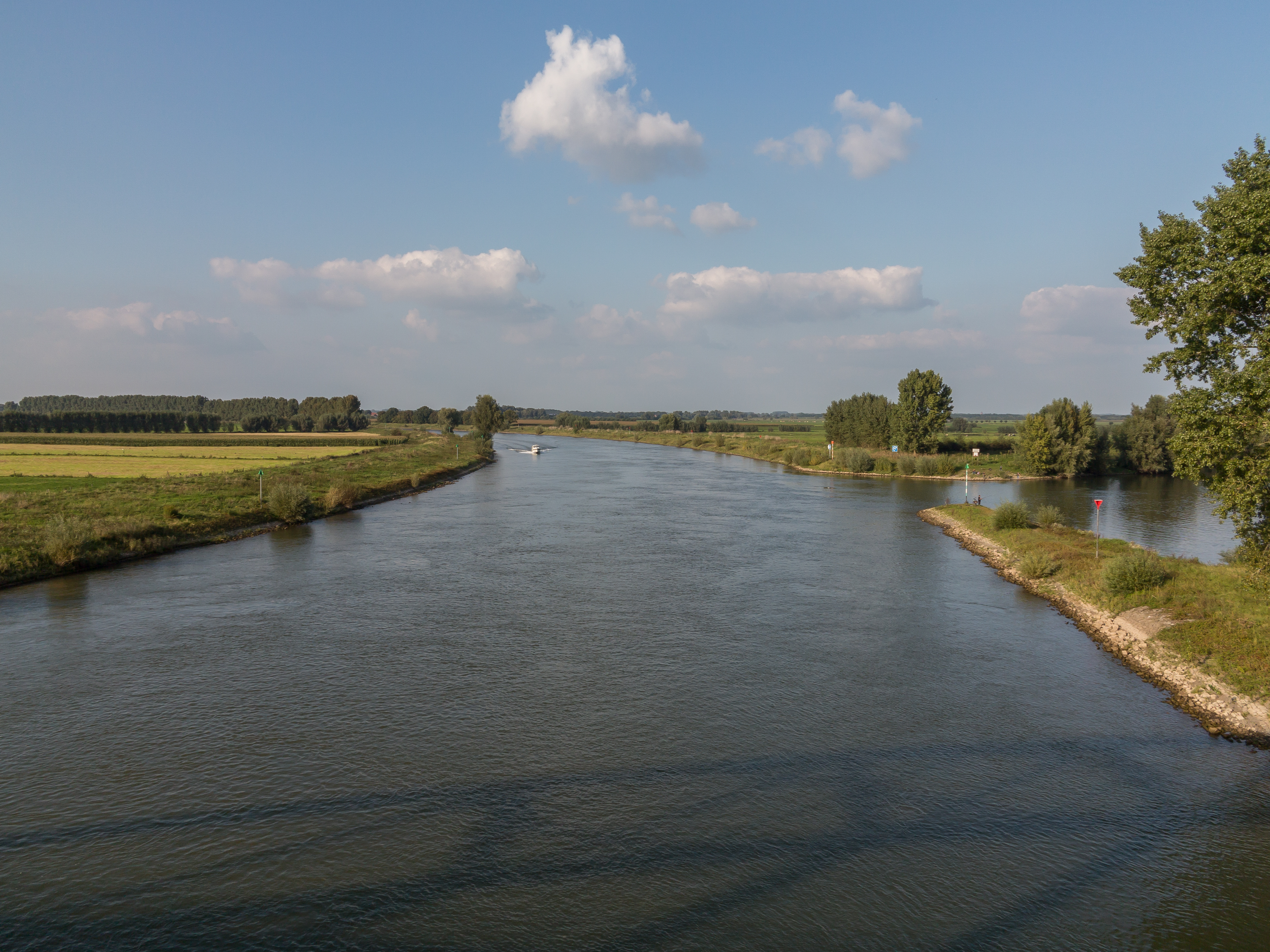 Between Doesburg and Ellecom, river de IJssel from the bridge